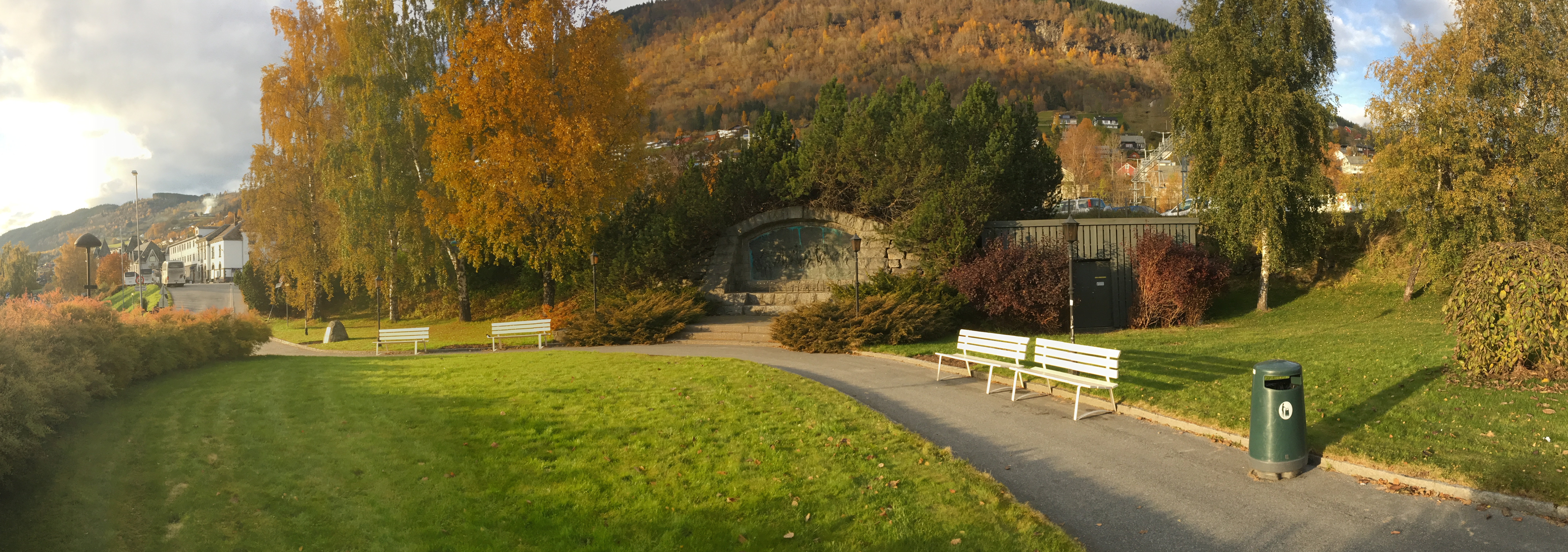 The relief "Ridande vossabrudlaup" by Nils Bergslien (1853–1928) was rected in 1921 in Vossevangen, Norway to the memory of the fiddle player Ola Mosefinn (1828–1912) and the traditional mounted wedding processions formerly customary to Voss. (Cropped distorted panorama 25th of October 2016)